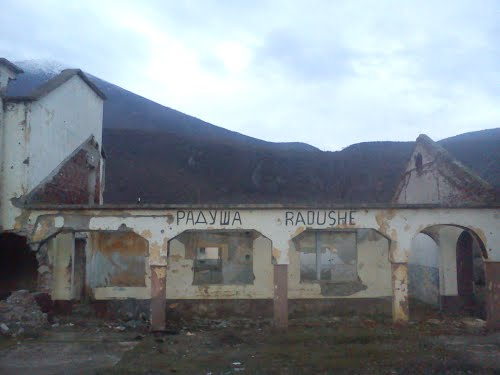 Destroyed building of the railway station in Radusha, Macedonia